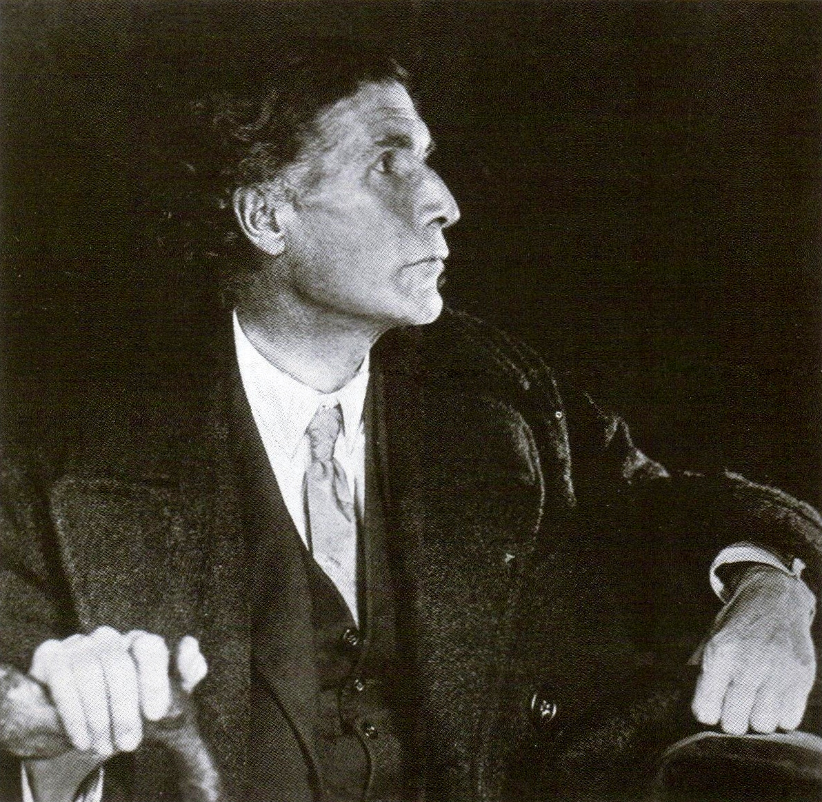 John Cowper Powys photo from After The Victorians